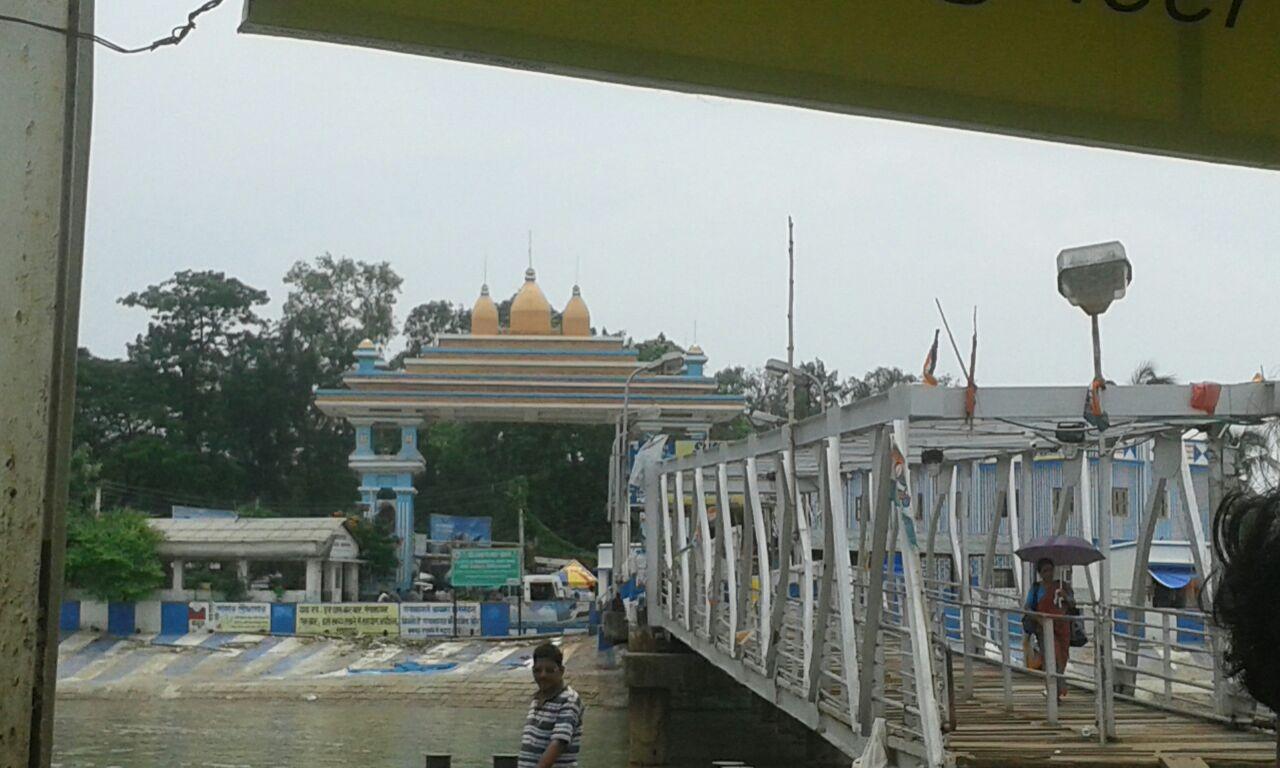 Kapil muni asharam main gate in Sagar deep